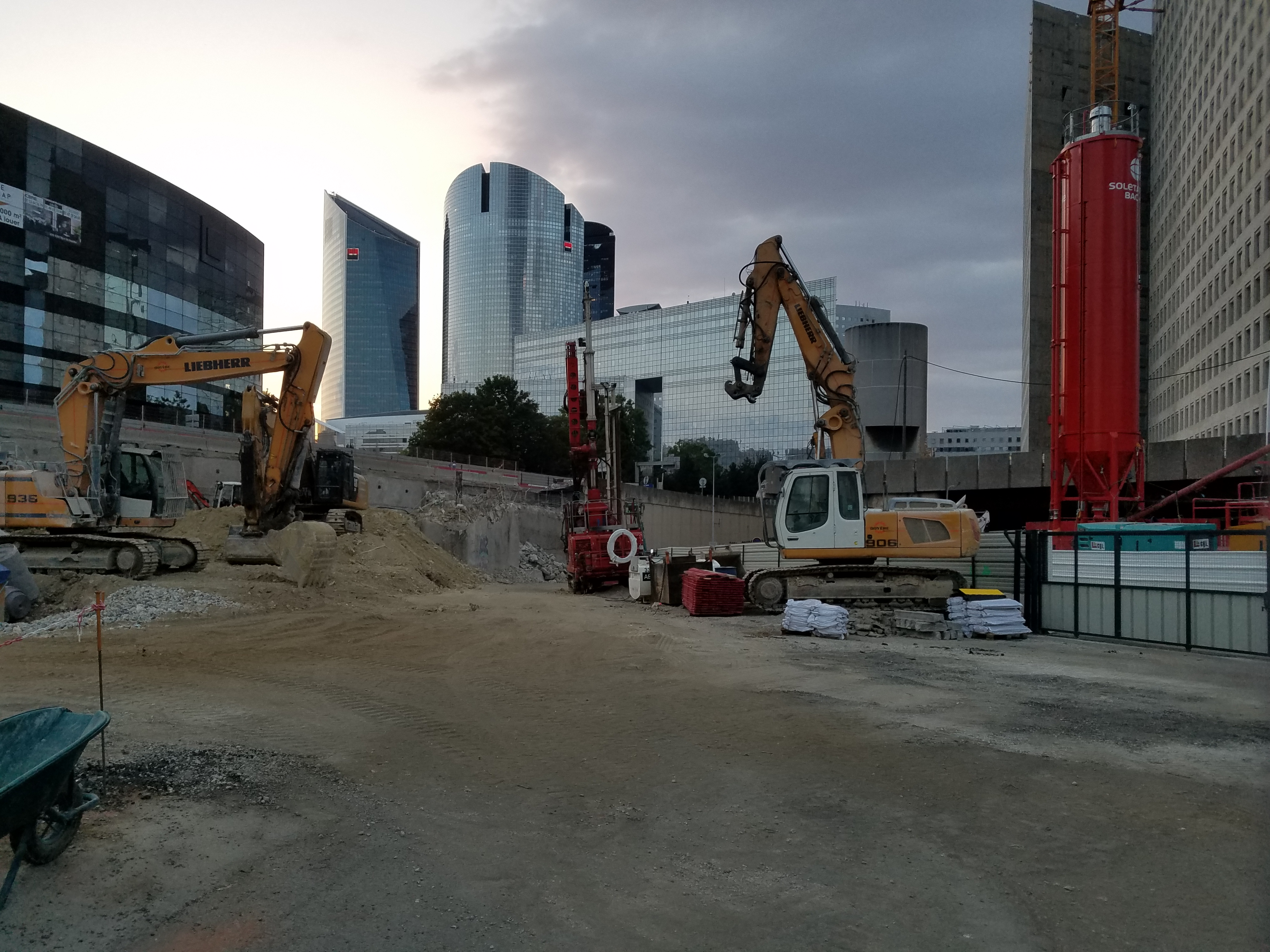 Hekla tower building site at La Défense